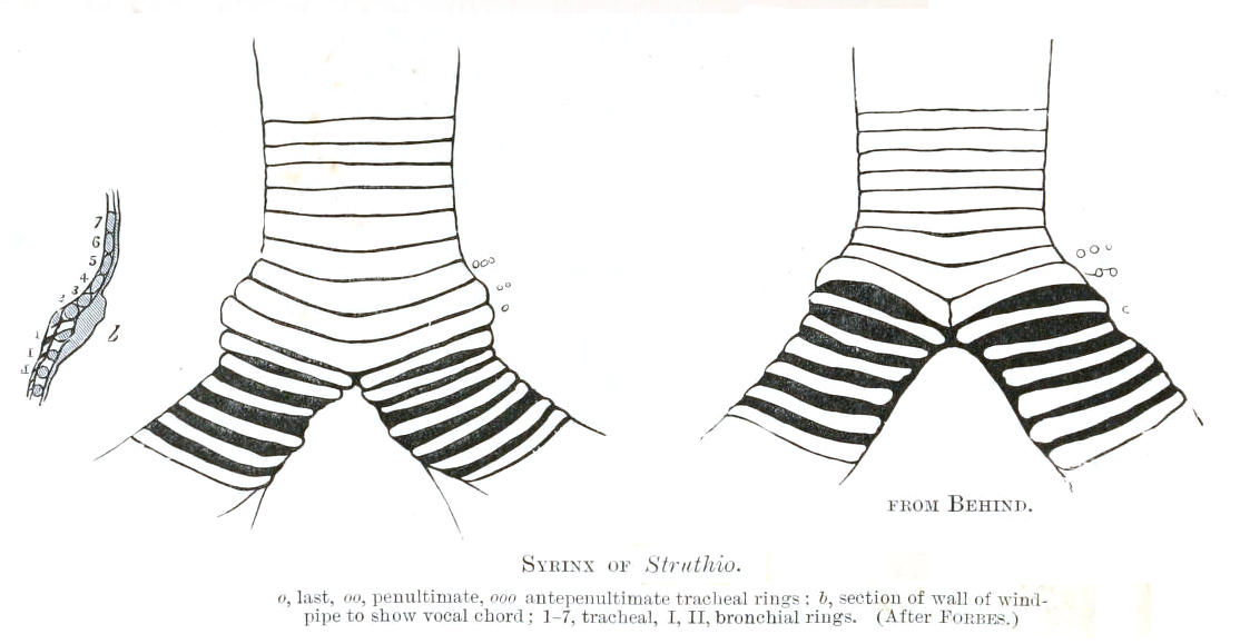 Syrinx of ostrich, Struthio